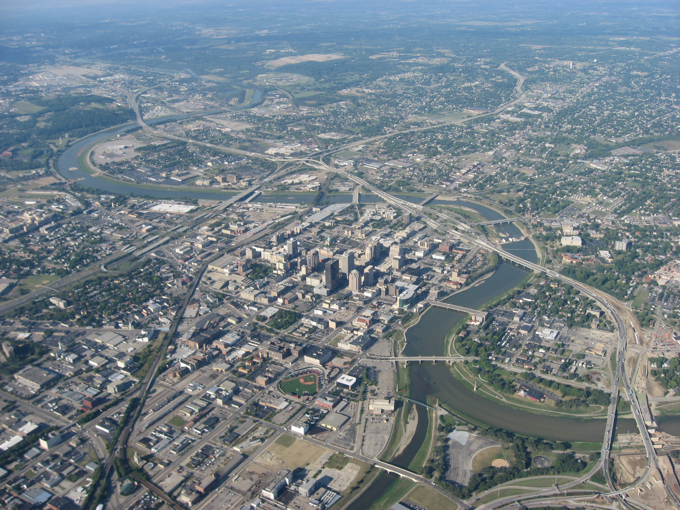 Aerial view of downtown Dayton, Ohio, United States, with the Great Miami River visible around downtown. Fifth Third Field, the stadium of the Dayton Dragons, can be seen east of downtown. Picture taken from a Diamond Eclipse light airplane at an altitude of 4,450 feet MSL and a bearing of approximately 220º.